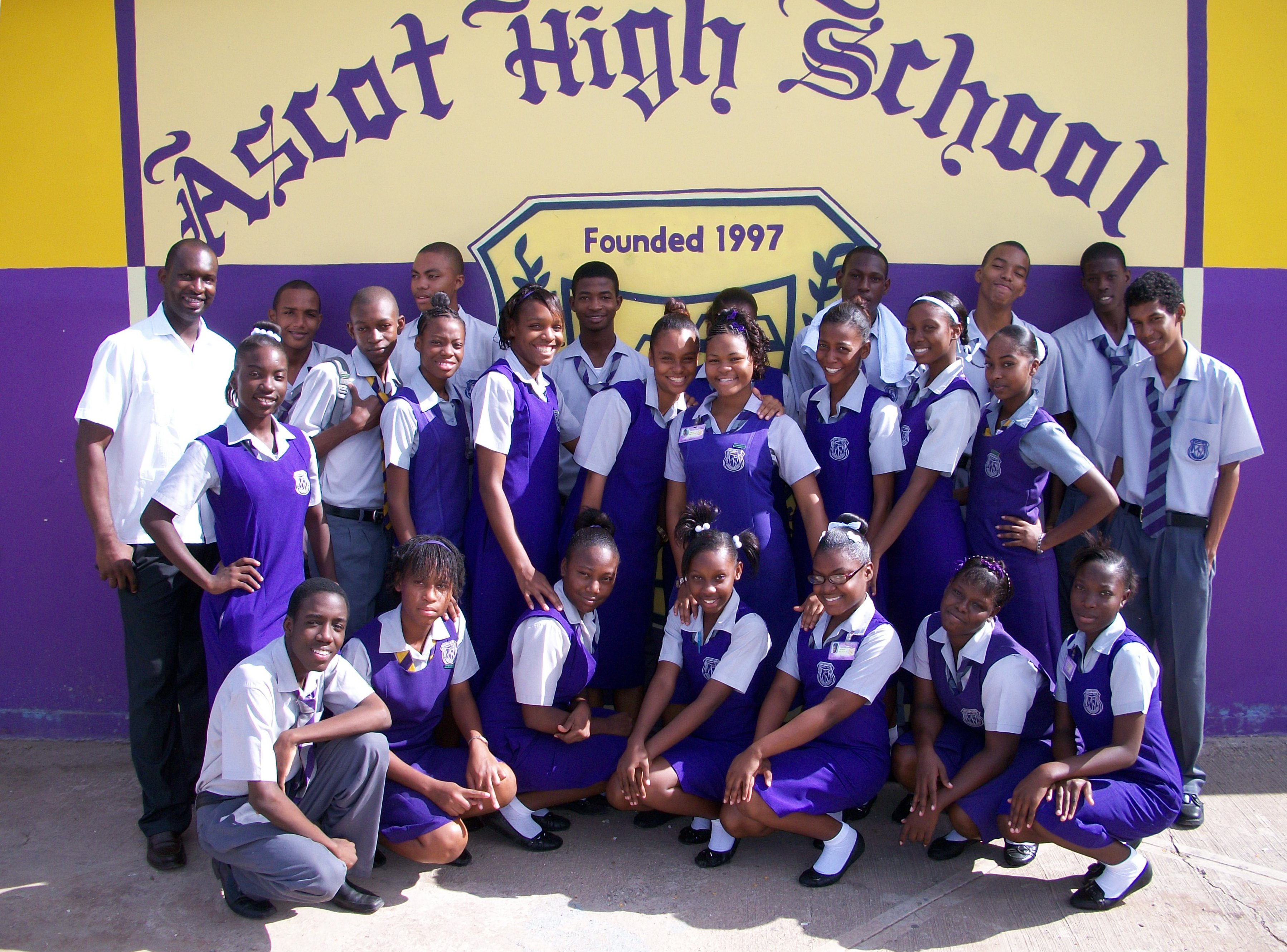 A group of 11th grade students and their teacher posing in-front of the school crest and mural near the front entrance.